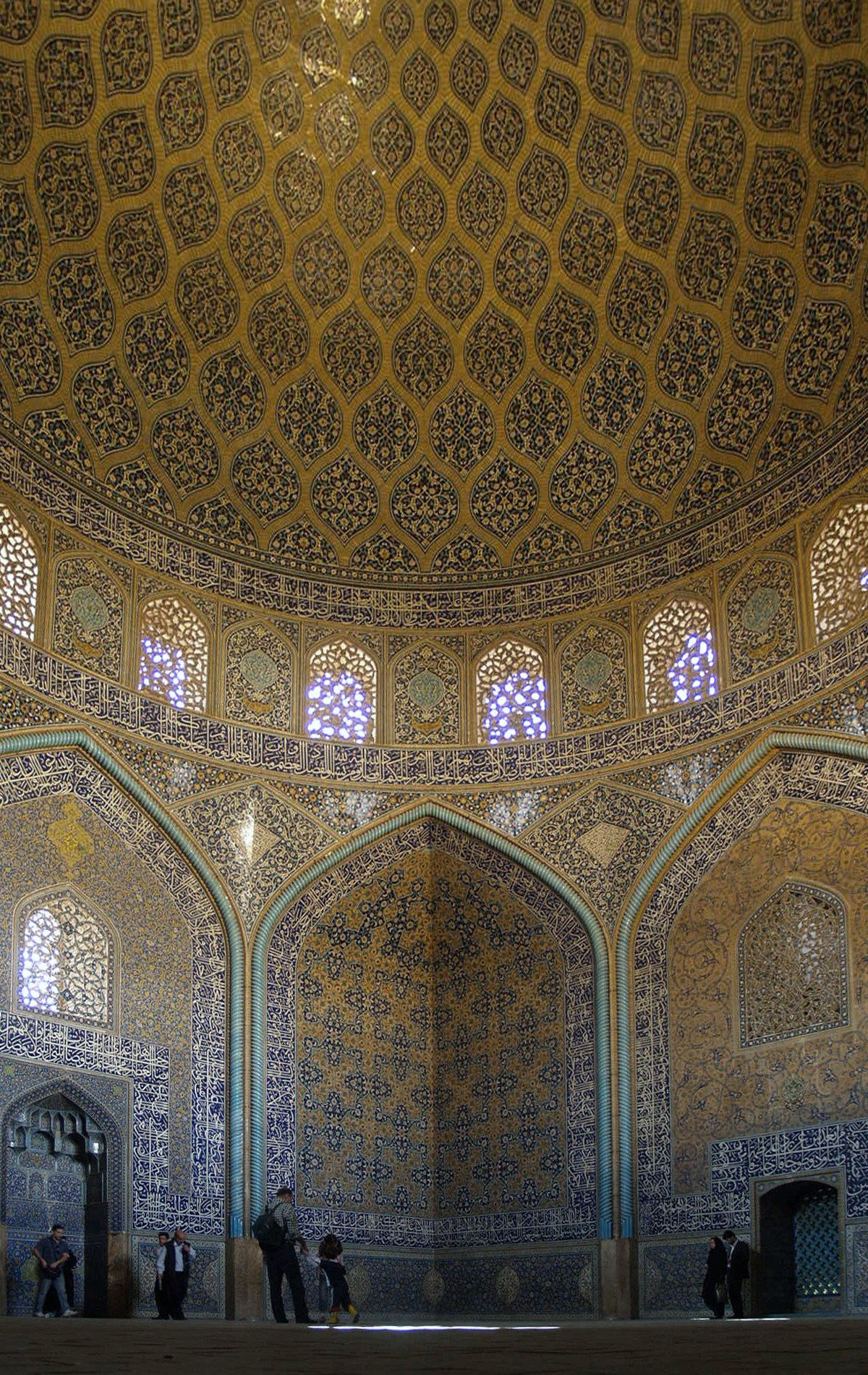 Interior side of Sheikh Lotf Allah Mosque (1602-1619), Isfahan, Iran.